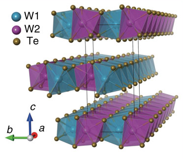 diagram showing structure of tungsten ditelluride WTe2, a layered compound